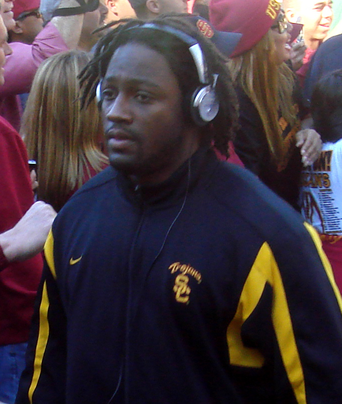 Chauncey Washington, walking with the rest of the USC Trojans football team towards Notre Dame Stadium.